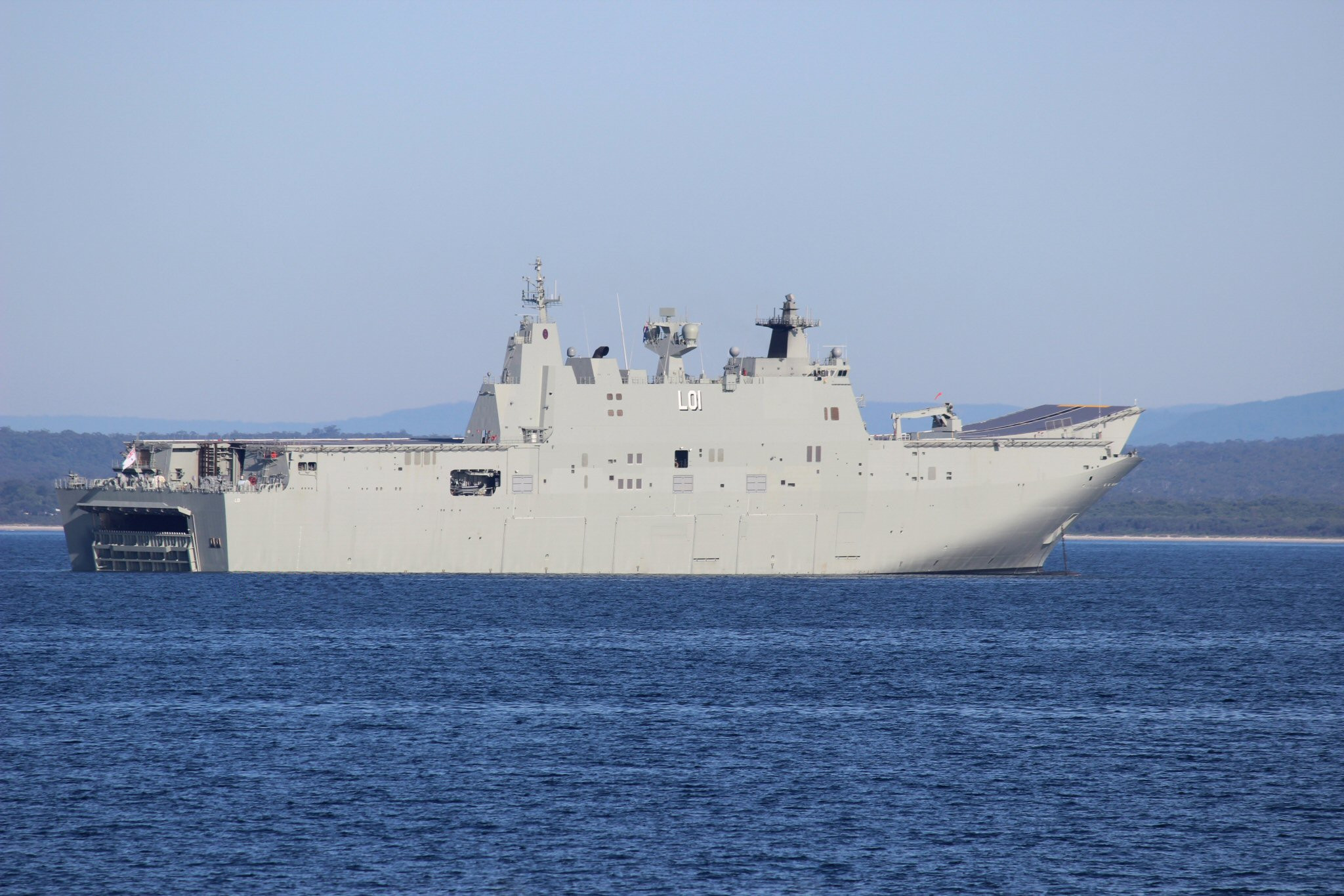 HMAS Adelaide (L01) at anchor in Jervis Bay, just off Honeymoon Bay